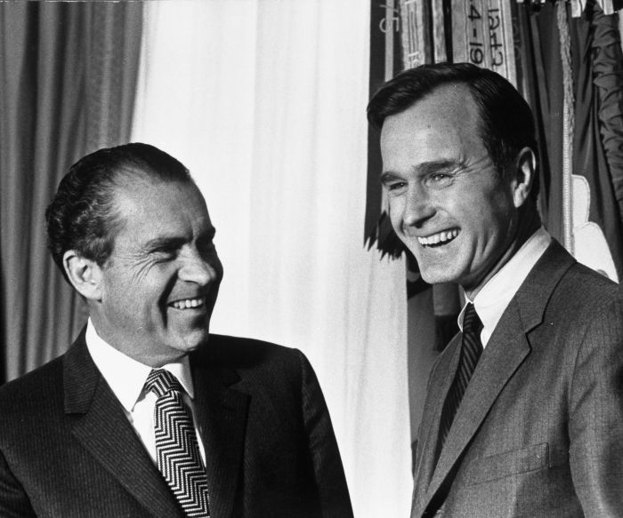 Appointment of George Bush as US Ambassador to the United Nations by President Richard Nixon. 12 January 1970